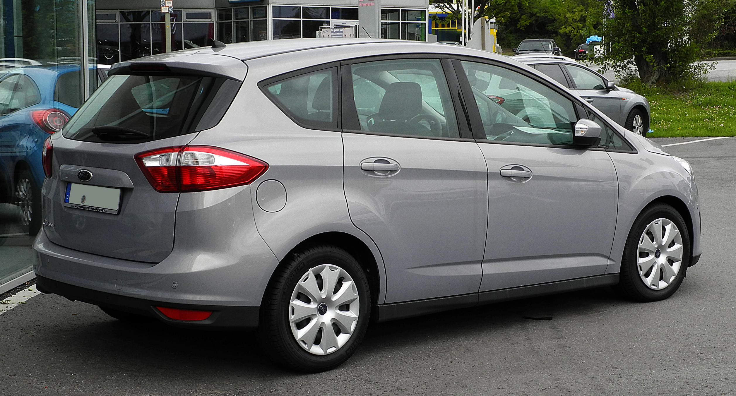 Ford C-Max 1.6 TDCi Trend (II)